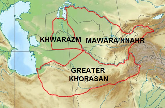 Mawara'nnahr (Transoxania or Fararud), Khwarezm and Greater Khorasan